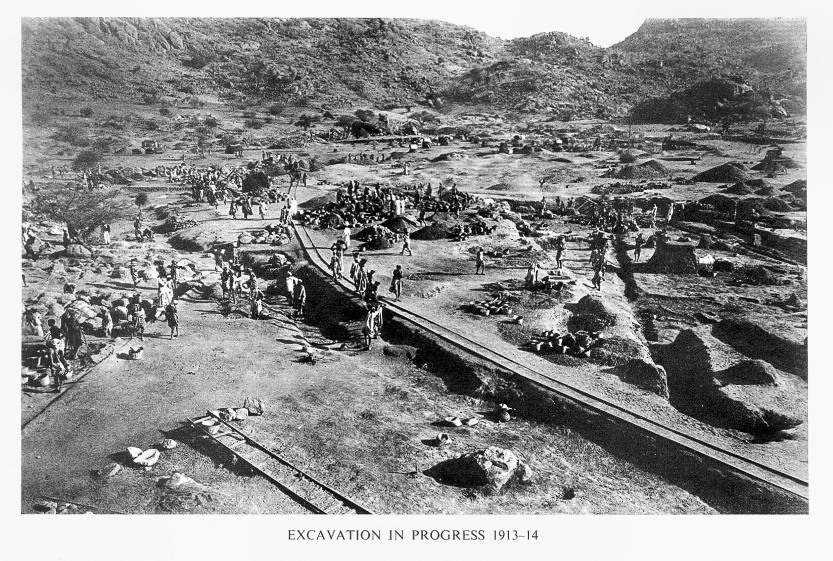 Jebel Moya site, Sudan; general excavations, with railway. Wellcome Images Keywords: Henry Solomon Wellcome; Martin Taylor